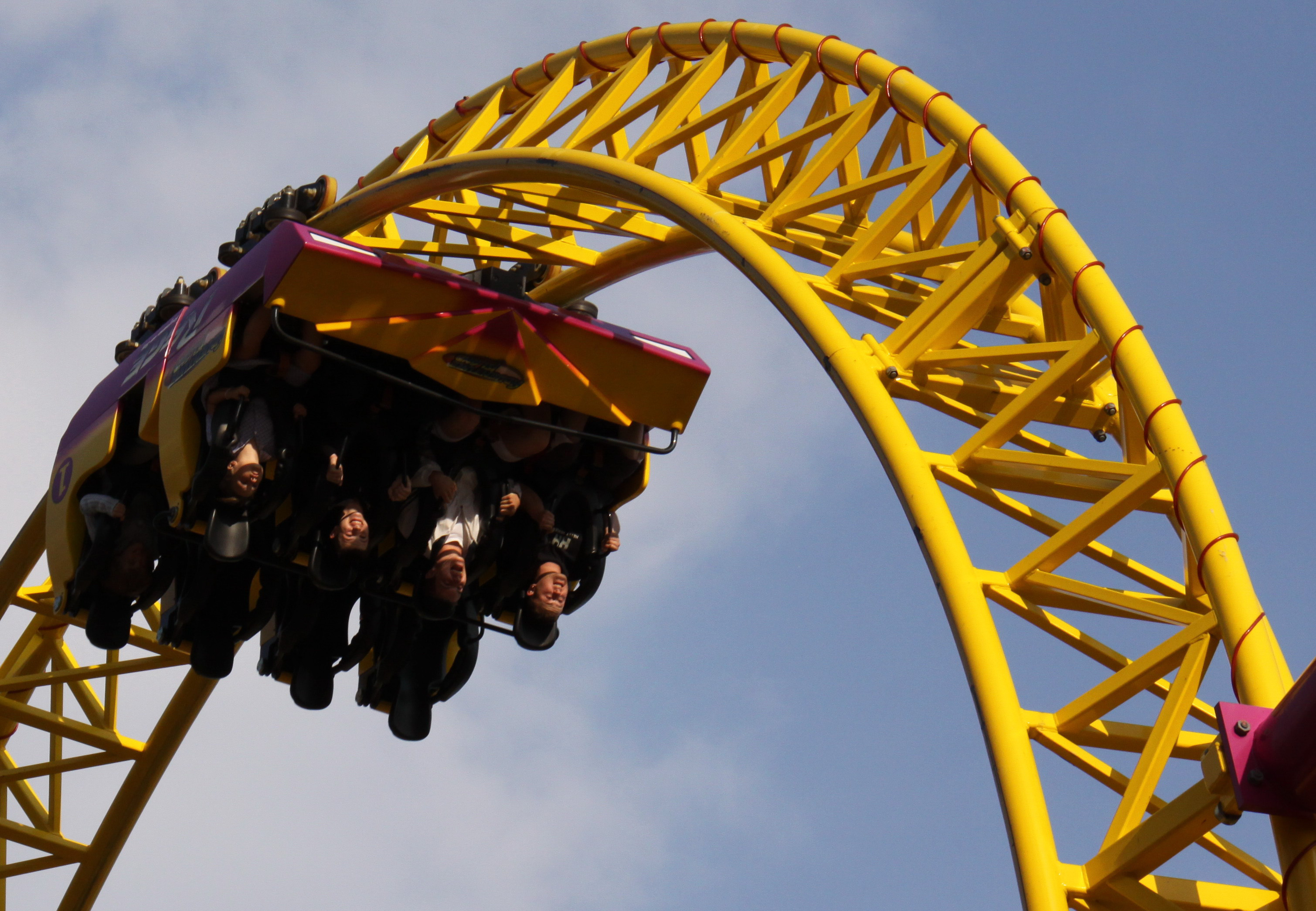 Car of roller coaster Rage at Adventure Island in Loop